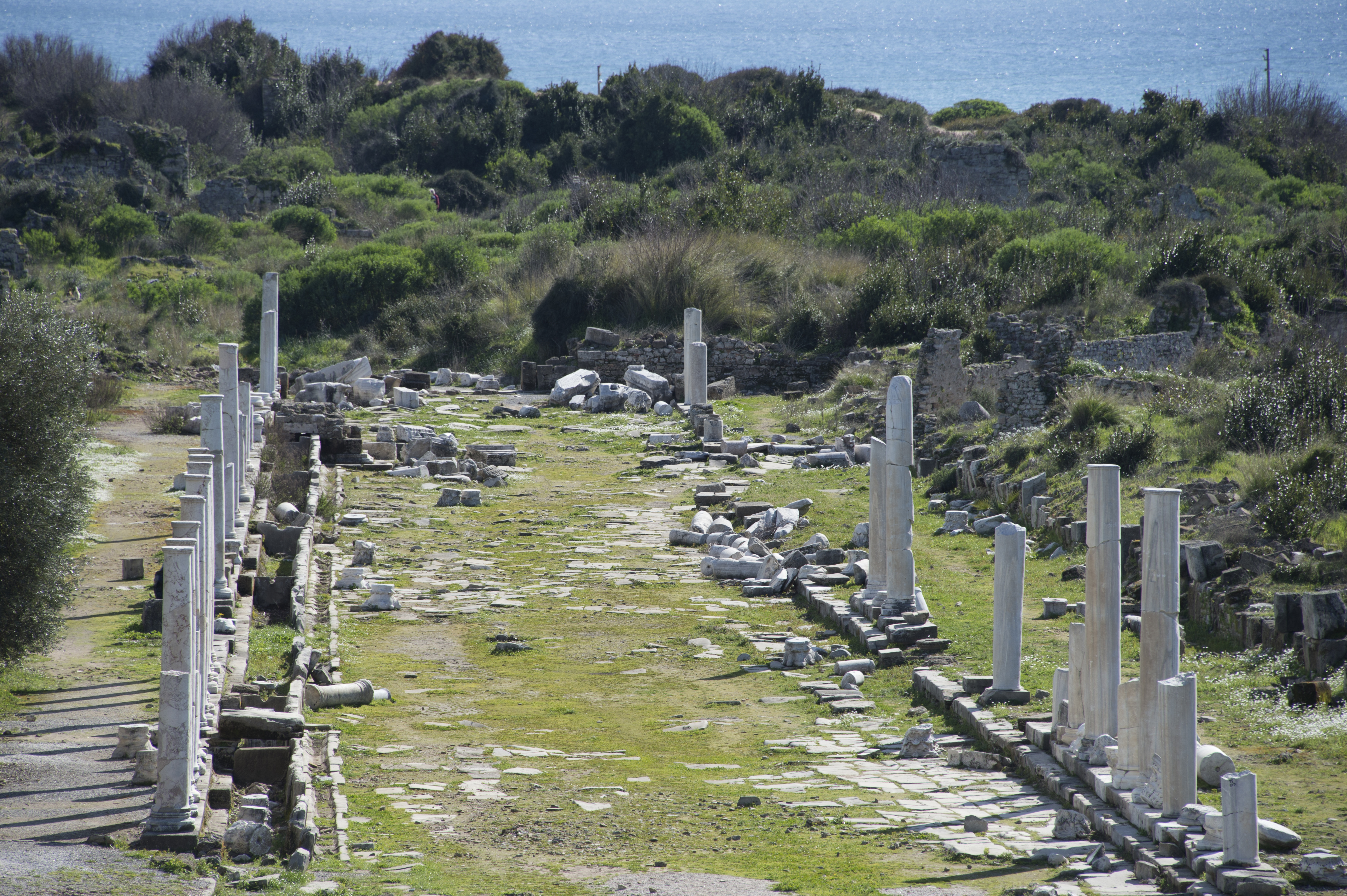 Side has lots of those column-lined streets, this one starts shortly after the Hellenistic gate where you enter the excavation area, behind the outer city wall. It leads to, roughly, the Episcopal Palace. A great delight is that you walk real old pavements.